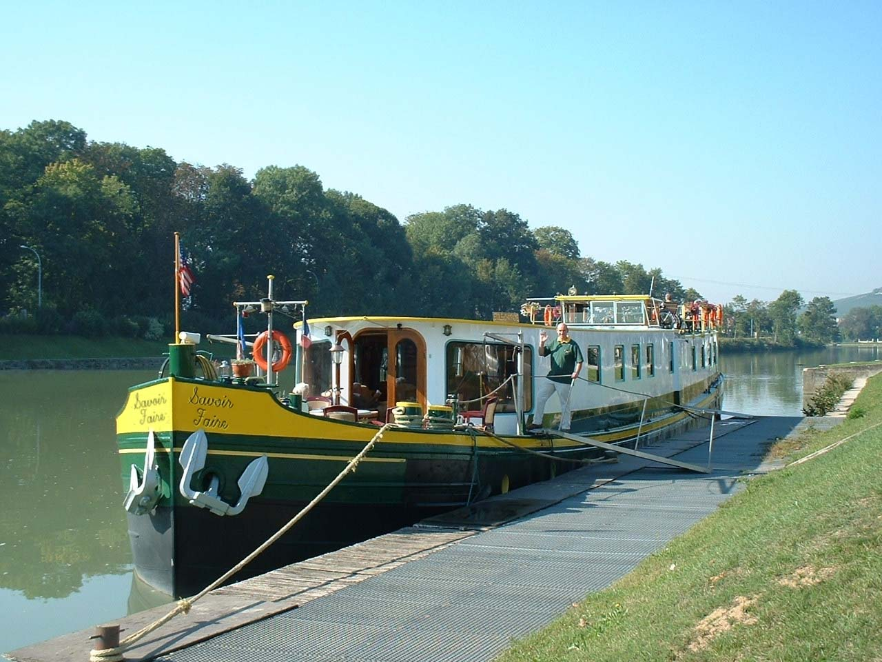 Savoir Faire hotel barge moored for the day.